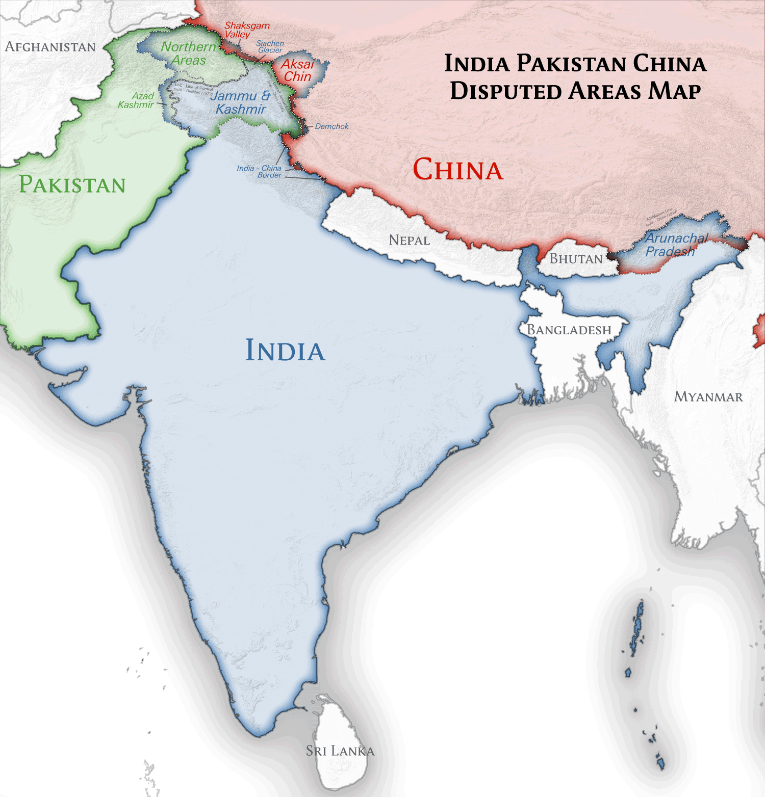 Composite map showing the borders of India, Pakistan & China as per official sources overlaid on areas of actual administrative control. Areas where official borders intersect are disputed areas administered by one country and claimed by another country. Each disputed region is indicated by a circle representative of its area with the color of the administering country and outlined by the color of the claimant country.